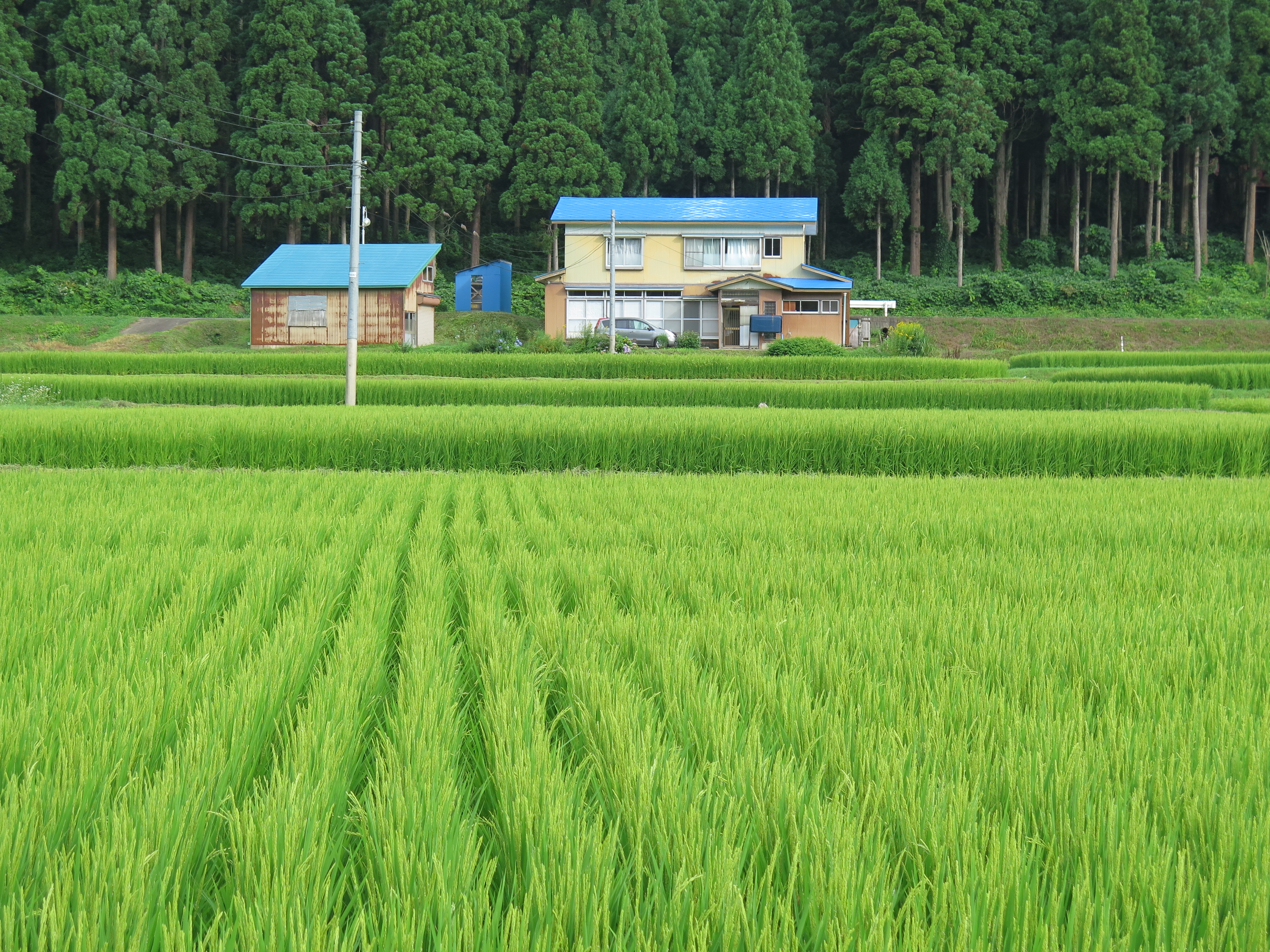 A rice field in Kami-Noyake. Jinego, Chokai, Akita, Japan.